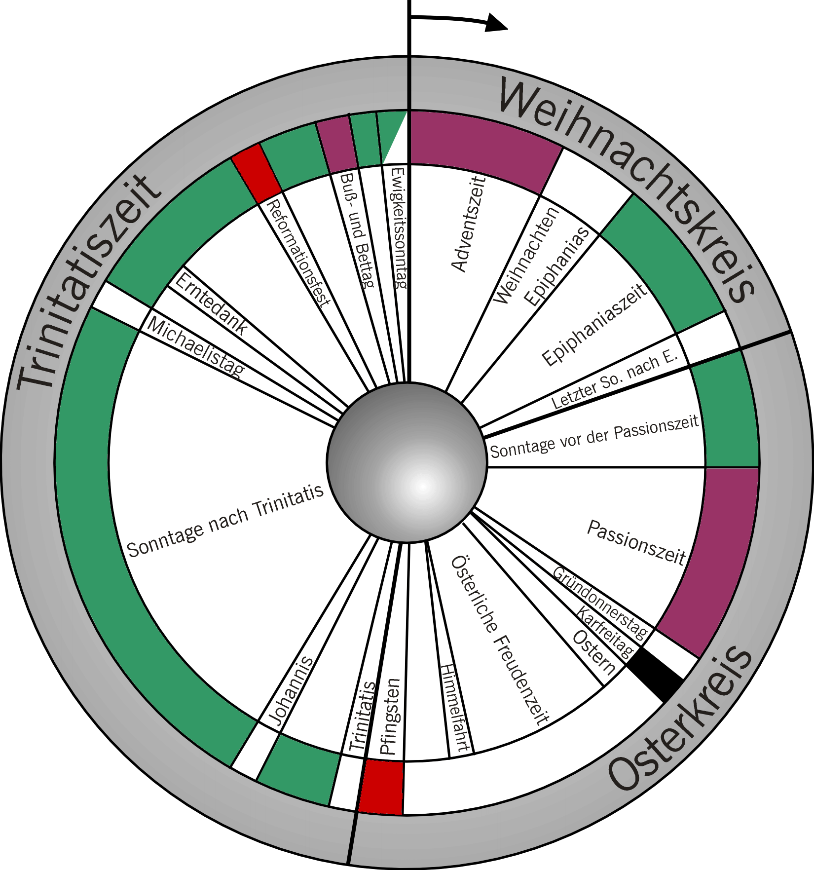 The protestant liturgical year, according to the use of the protestant churches in Germany